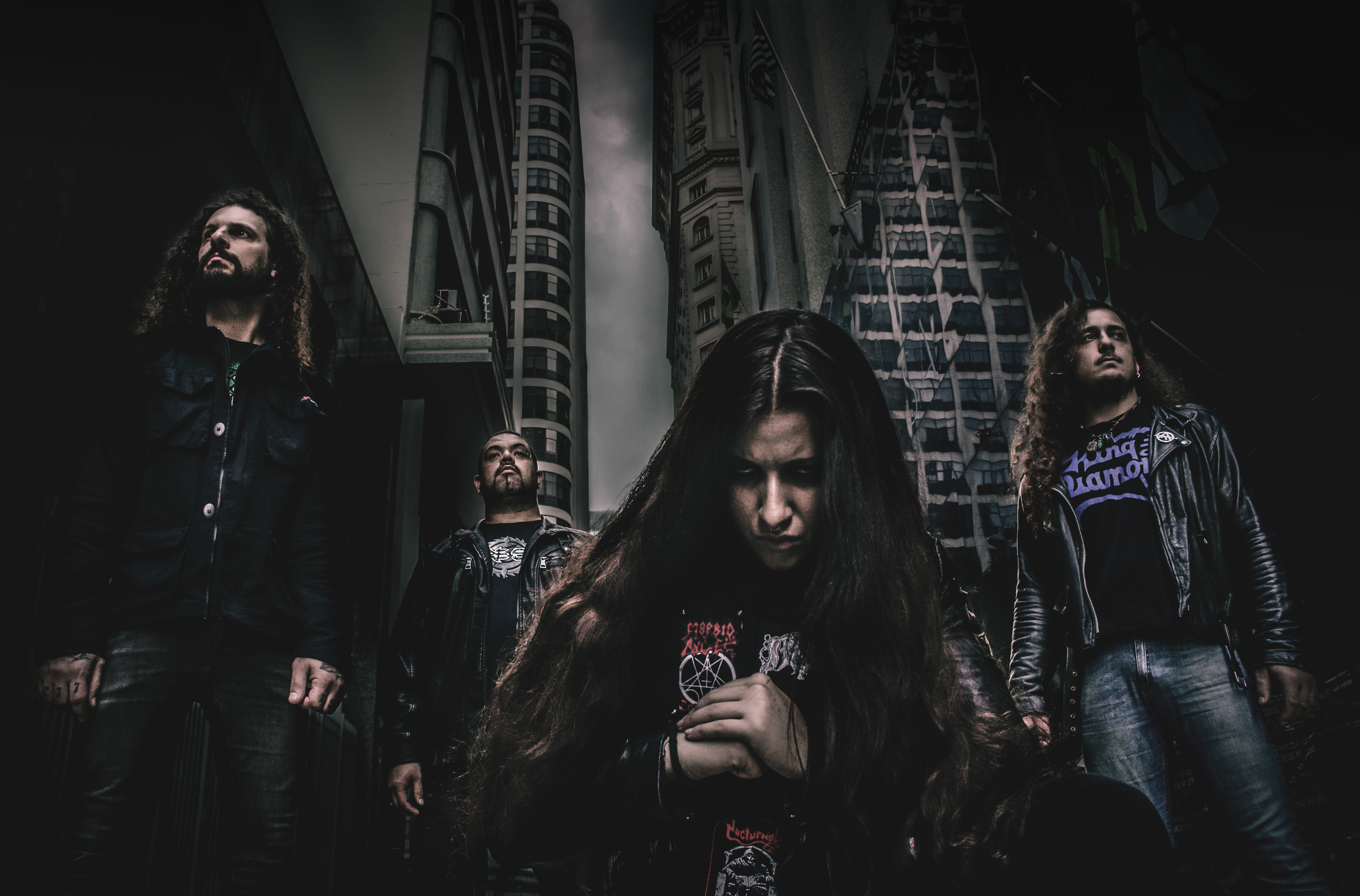 LINE - UP Amilcar Christófaro – Drums Castor – Bass Mayara Puertas – Vocals Rene Simionato – Guitars